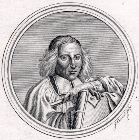 Italian organist and composer Antimo Liberati (1617-1692) by James Caldwall (1739-1822) after an engraving in Andrea Adami's Osservazioni per ben regolare il coro dei cantori della Cappella pontificia. Catalogo de' nomi, cognomi, e patria de i cantori pontifici (Rome, 1711).